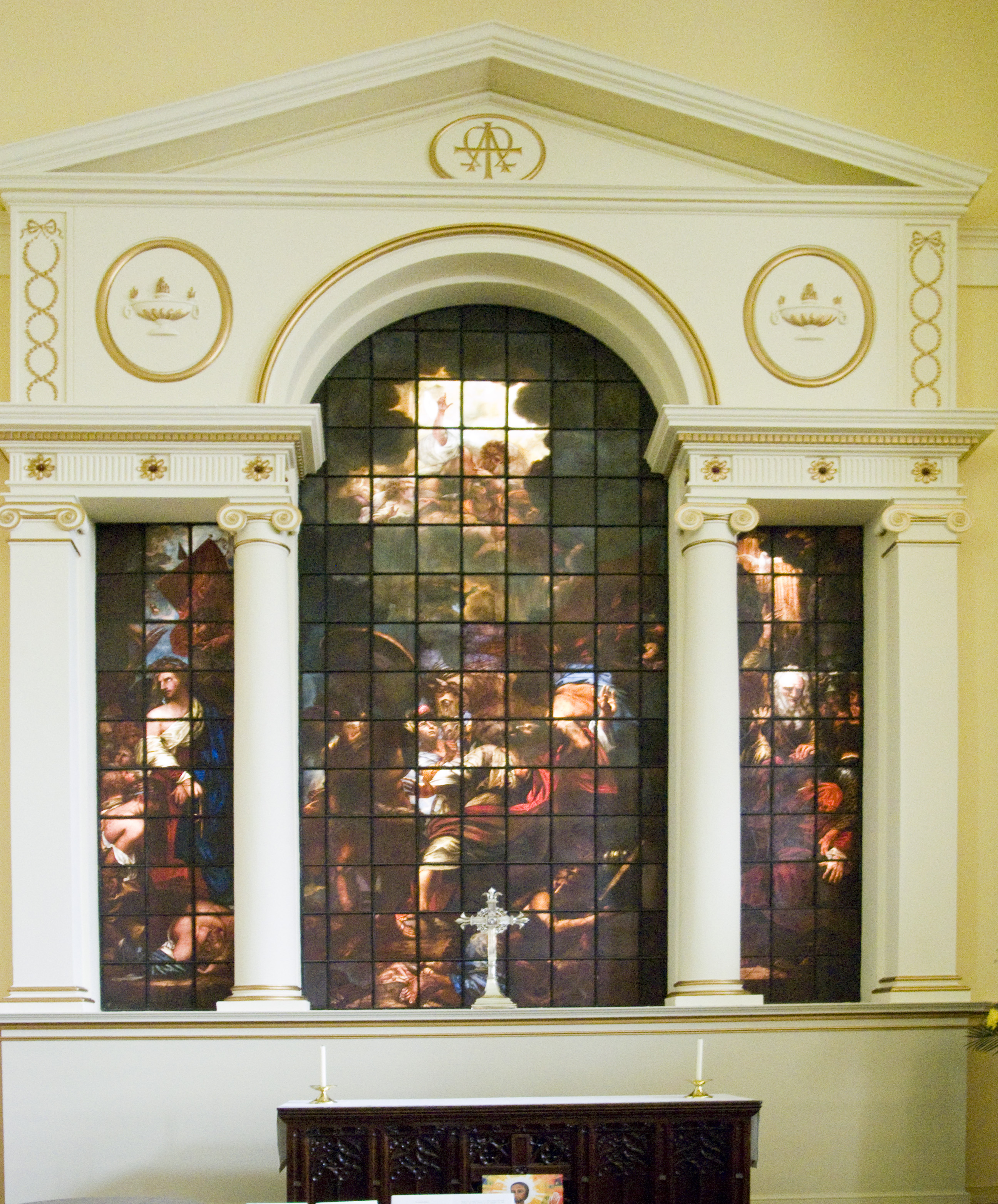 The east window of St Paul's Church, in the Jewellery Quarter of Birmingham, England. It was made by Francis Eginton in 1791 and modelled on an altarpiece painted about 1786 by Benjamin West, representing the Conversion of Saint Paul. Corrected for perspective and colours enhanced.